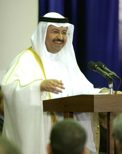 Interim Iraqi president Ghazi Masha Aji al-Yawer, speaks at a ceremony in Baghdad, Iraq, June 1, 2004.